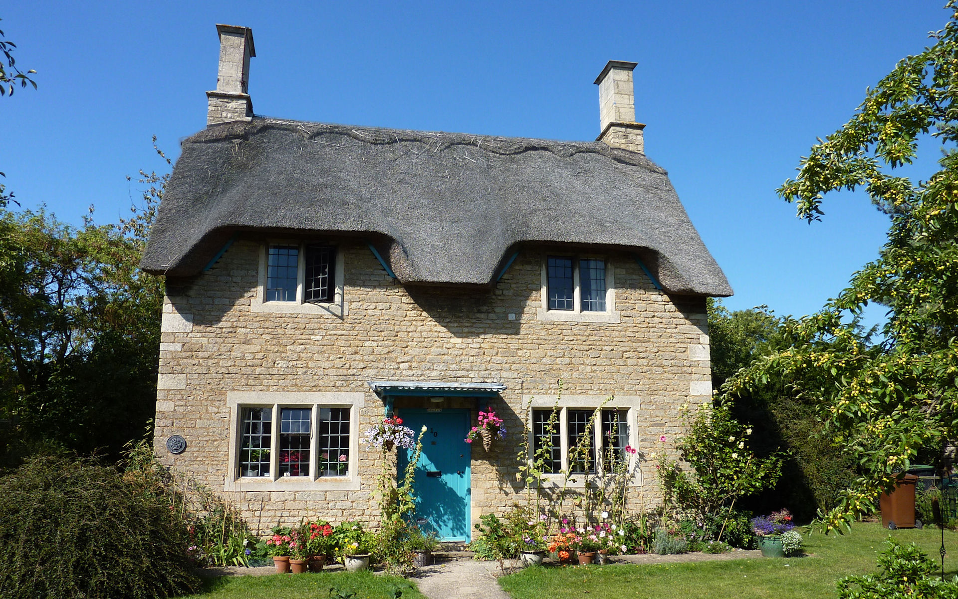 Cottage at Ashton, East Northamptonshire